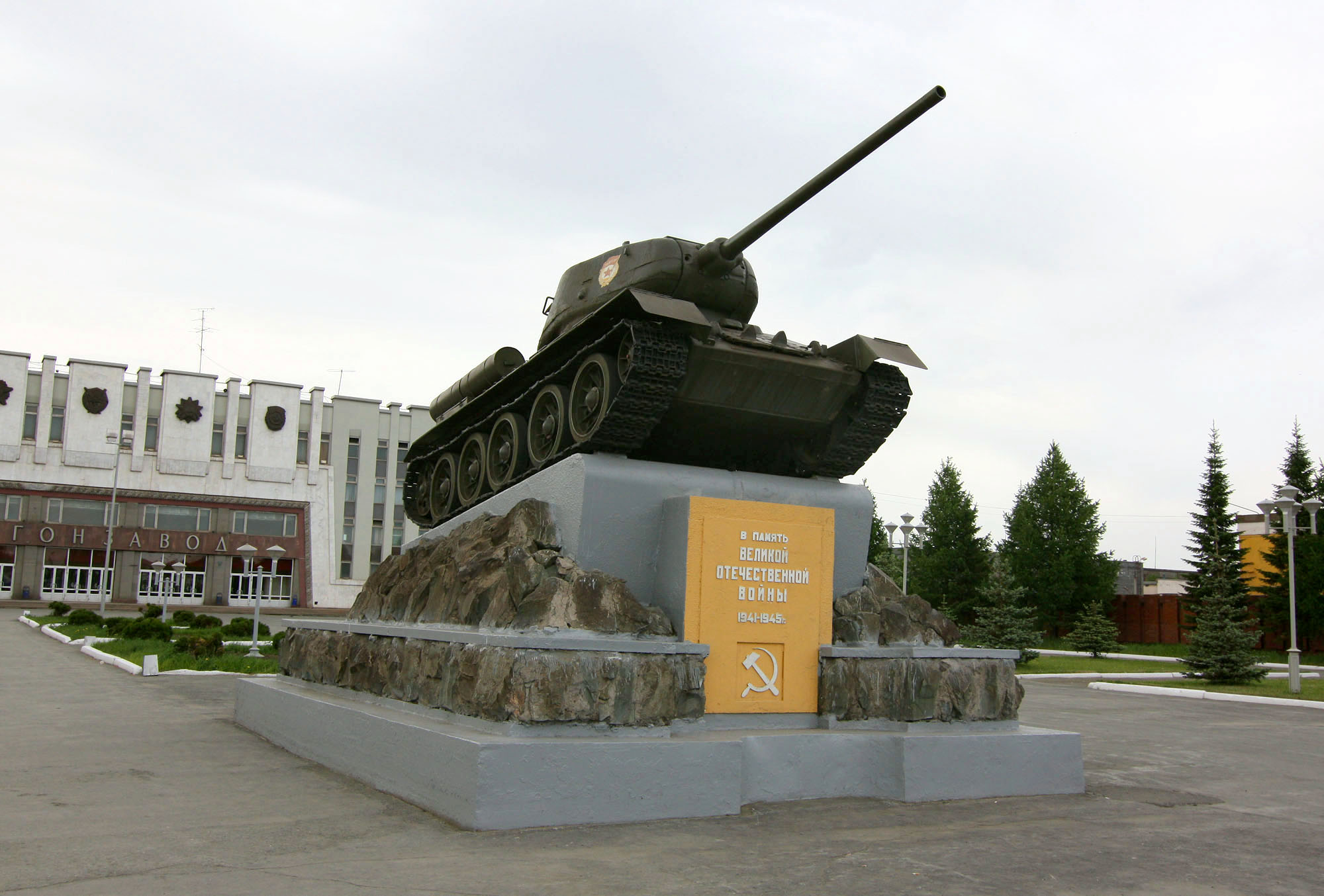 Tank T-34 monument located near the main Uralvagonzavod building and its museum in Nizhniy Tagil.